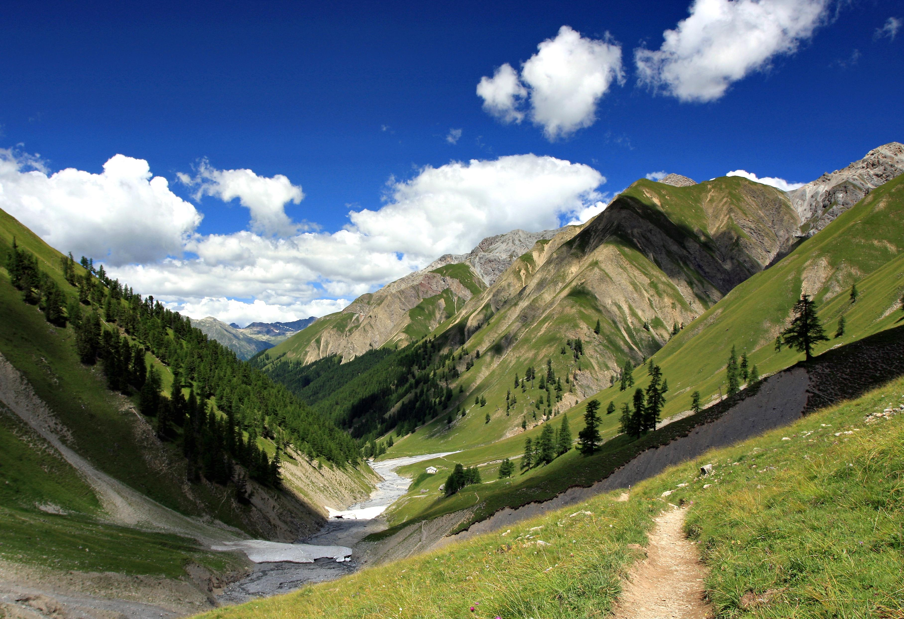 Val Trupchun in the Swiss National Park (Graubünden). View toward west.